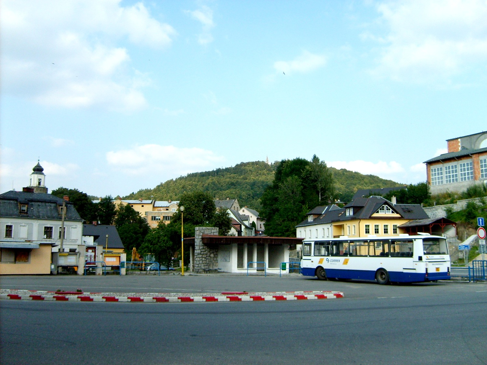 Bus station in Žulová.